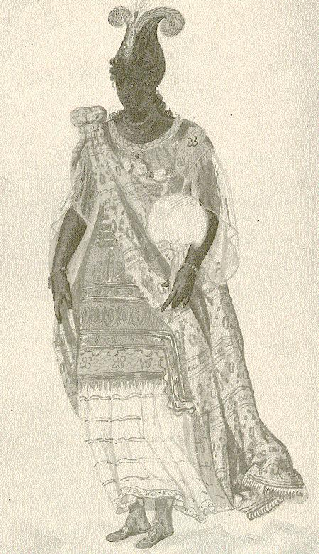 Design for The Masque of Blacknesse